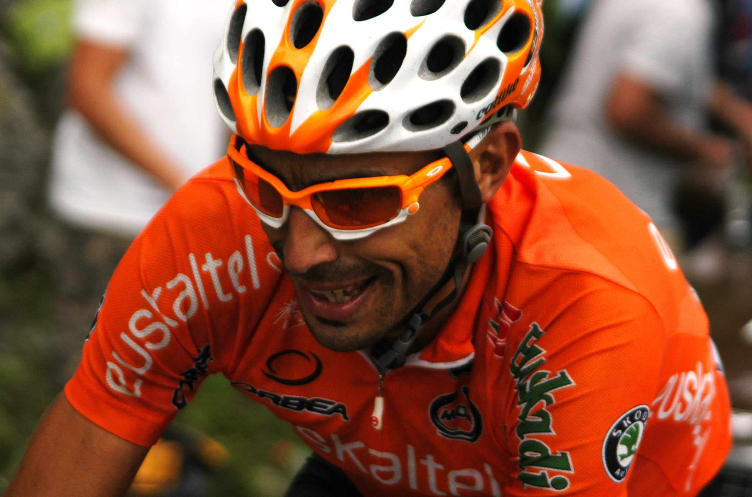 Egoi Martinez (ESP) at stage 17 of the 2009 Tour de France on the Col de la Colombière.